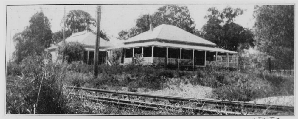 Witton House, in the grounds of Tighnabruaich, a residence in Indooroopilly, ca. 1932. Herbert Brealey Hemming, a solicitor with a distinguished Brisbane legal practice, purchased Tighnabruaich, in 1904. Witton Manor, another house owned by Hemming, was moved between 1916 and 1919 to the grounds of Tighnabruaich from its original site further upstream at Indooroopilly and renamed Witton House.